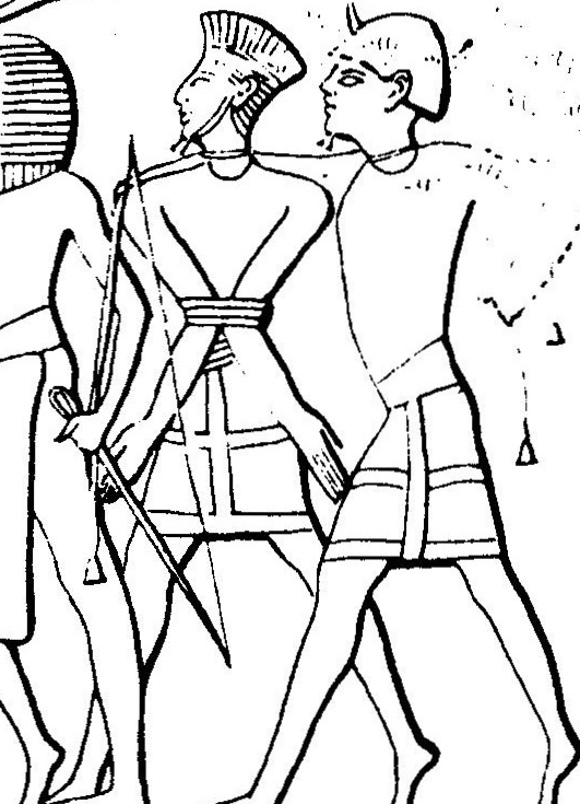 Sea People